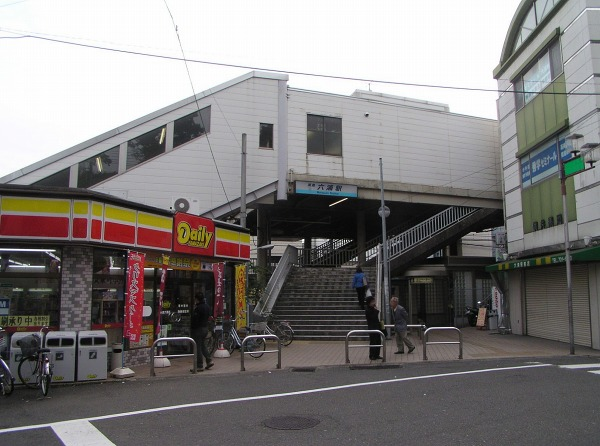 Mutsuura station west entrance